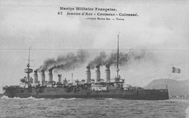 French cuiser Jeanne d'Arc (1895-1934)